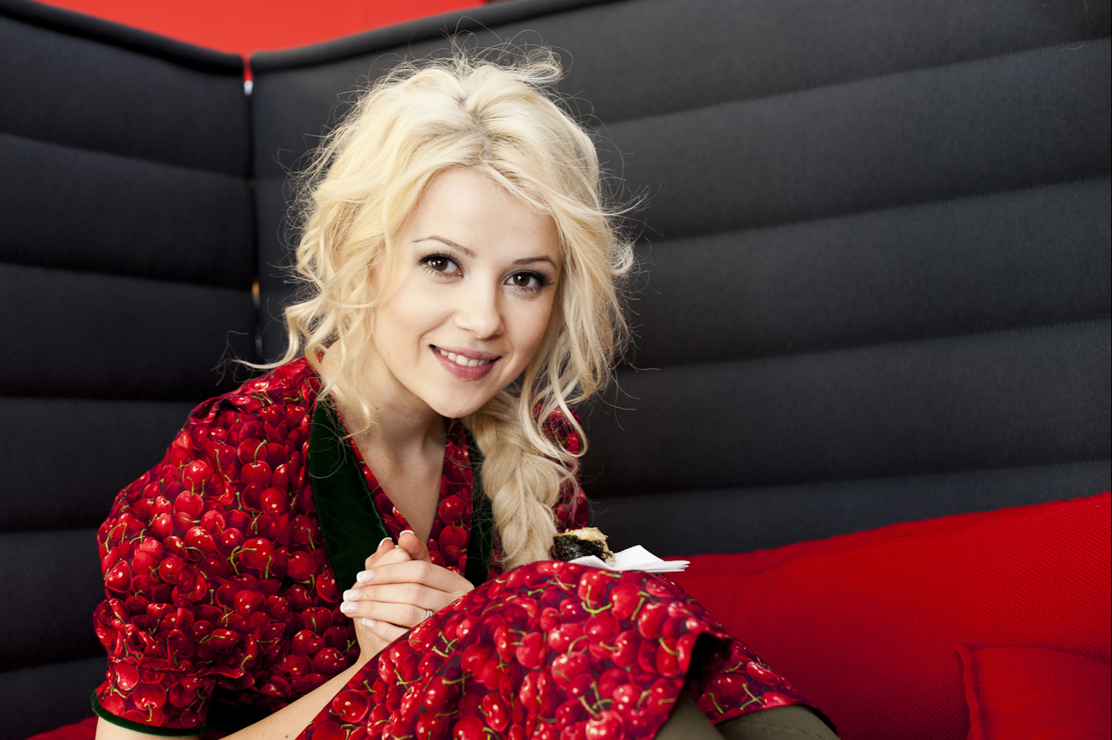 Mika Newton from Ukraine at Eurovision Song Contest 2011 in Düsseldorf